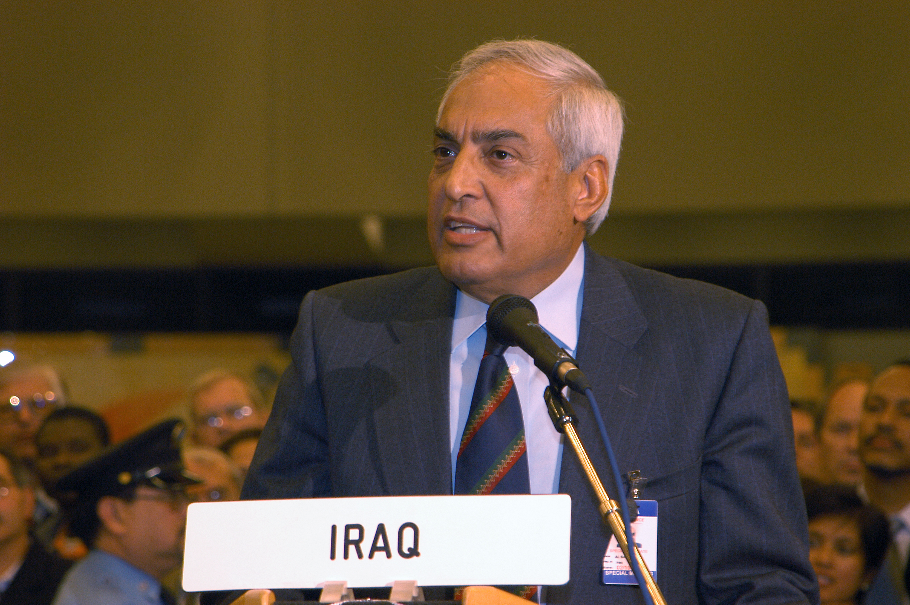 IAEA, UNMOVIC, Iraq Press Briefing Dr Amir Hamoudi Al Saadi, Adviser to the Iraqi President at a press conference during the two day talks between IAEA, UNMOVIC and Iraq. Vienna, Austria, 1 October 2002. Photo Credit: Dean Calma / IAEA